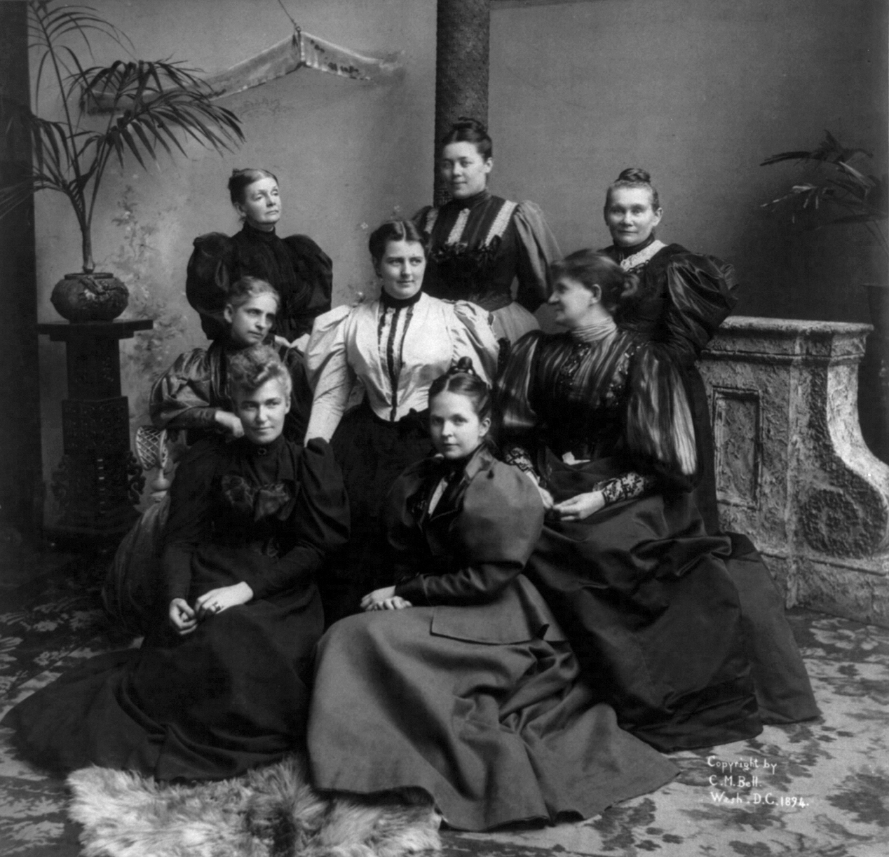 "Mrs. Cleveland and Ladies of the Cabinet". Top to bottom, left to right: Mrs. Richard Olney, Mrs. Walter Quinton Gresham, Mrs. Daniel S. Lamont, Mrs. Wilson S. Bissell, Mrs. Cleveland, Mrs. M. Hoke Smith, Mrs. John G. Carlisle, and Miss Morton (daughter of Julius Sterling Morton).